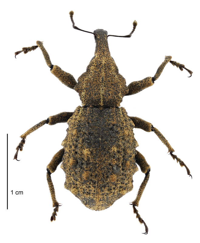 Dorsal view of a specimen of Hadramphus stilbocarpae photographed by Landcare Research New Zealand Ltd.